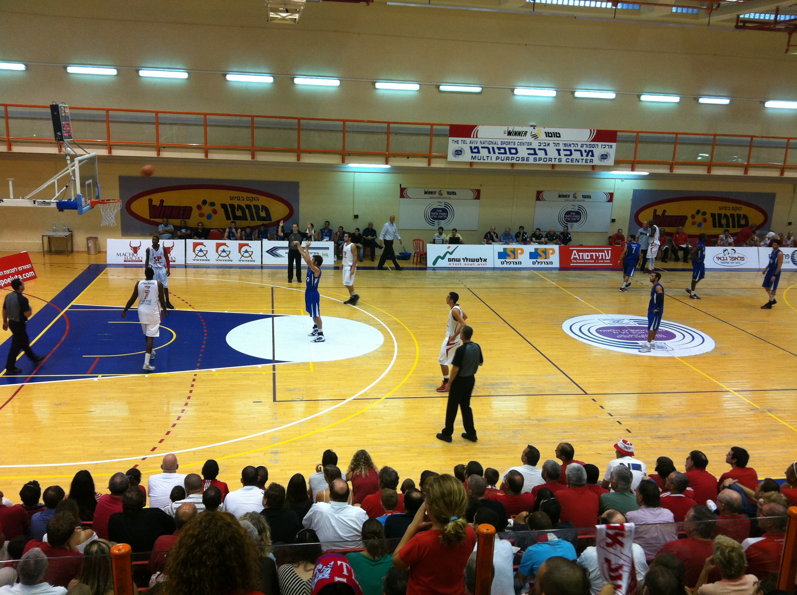 Free throw agains Hapoel Tel Aviv(basketball) in a match agianst hod hashron on the first game of "leomit league" of 2011/2012